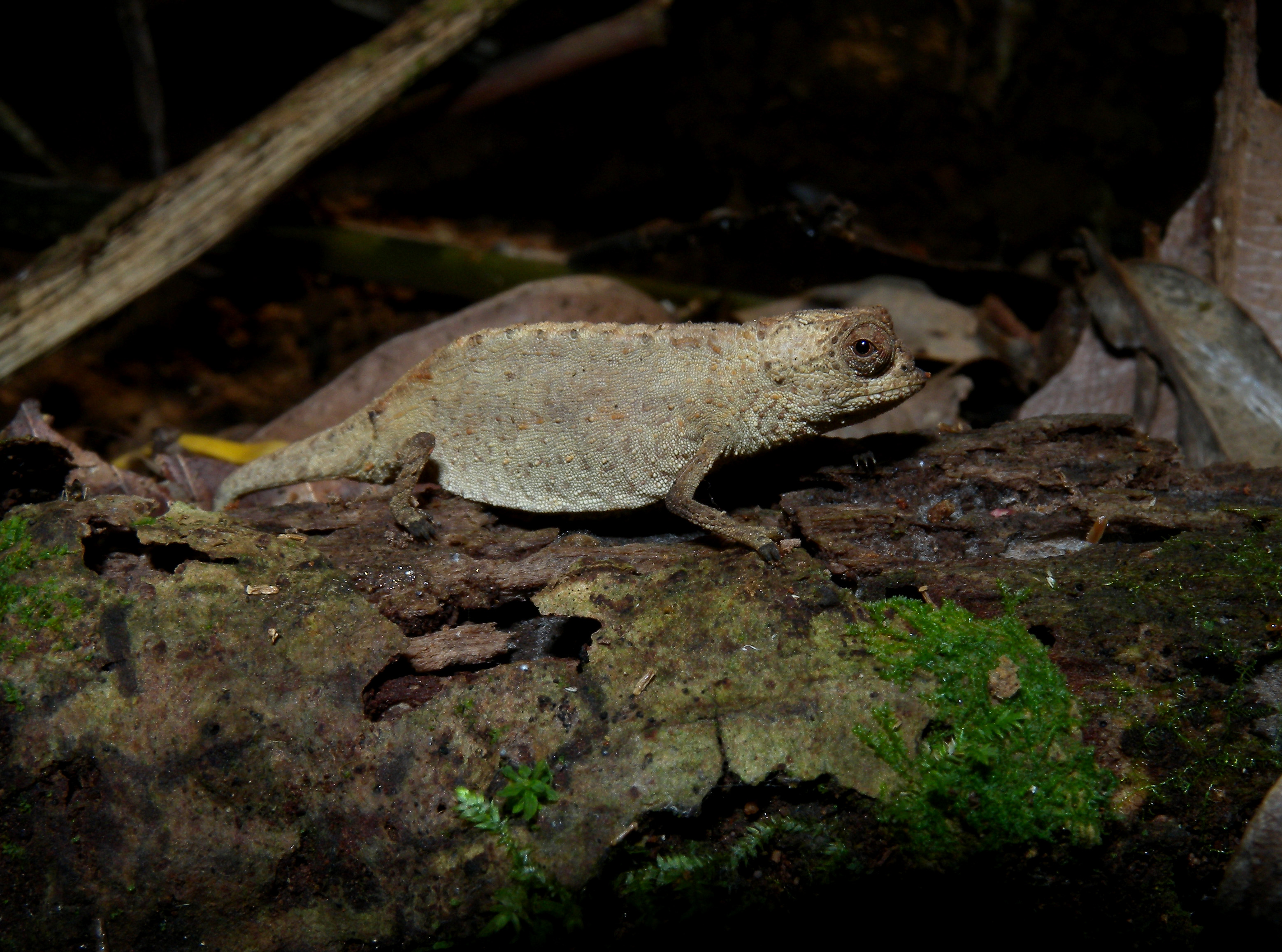 Brookesia peyrierasi is a member of the genus Brookesia, endemic to Madagascar. Most species of this genus are small to very small in size, browninsh or greyish, and have a terrestrial lifestyle. The exact number of species within this genus is still subject of debate. Many have only been described within the last decades, based on subtle morphological differences in their hemipenises, in the arrangement of head crests or the position of spines above the eyes.